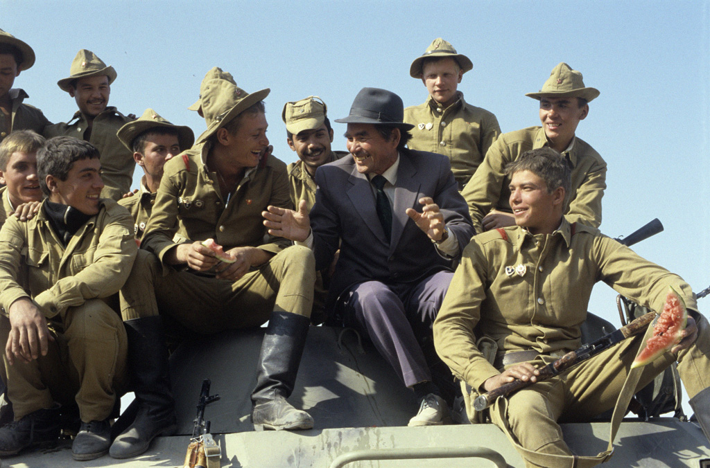 “Soviet Army soldiers return from Afghanistan”. Soviet soldiers welcomed by a local resident upon their return from Afghanistan.